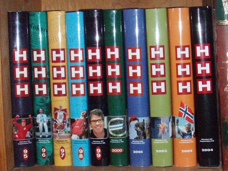 10 editions of the Norwegian yearbook Hvem Hva Hvor. Photo by Ståle Johnsen (the uploader, aka Guaca)